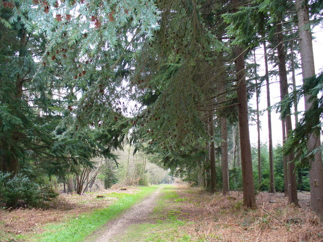 Alice Holt Forest Track south of Alice Holt Lodge Research Station. The wood is mainly coniferous trees and sandy tracks.